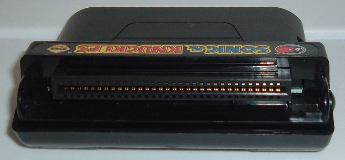 Photo demonstrating the "lock on" technology of the Sonic & Knuckles cartridge for the Sega Genesis. In this image, the lock on cover is open, showing a slot for another cartridge to be plugged in. I, Ben Wong, created this image myself and release it under the terms of the GFDL.